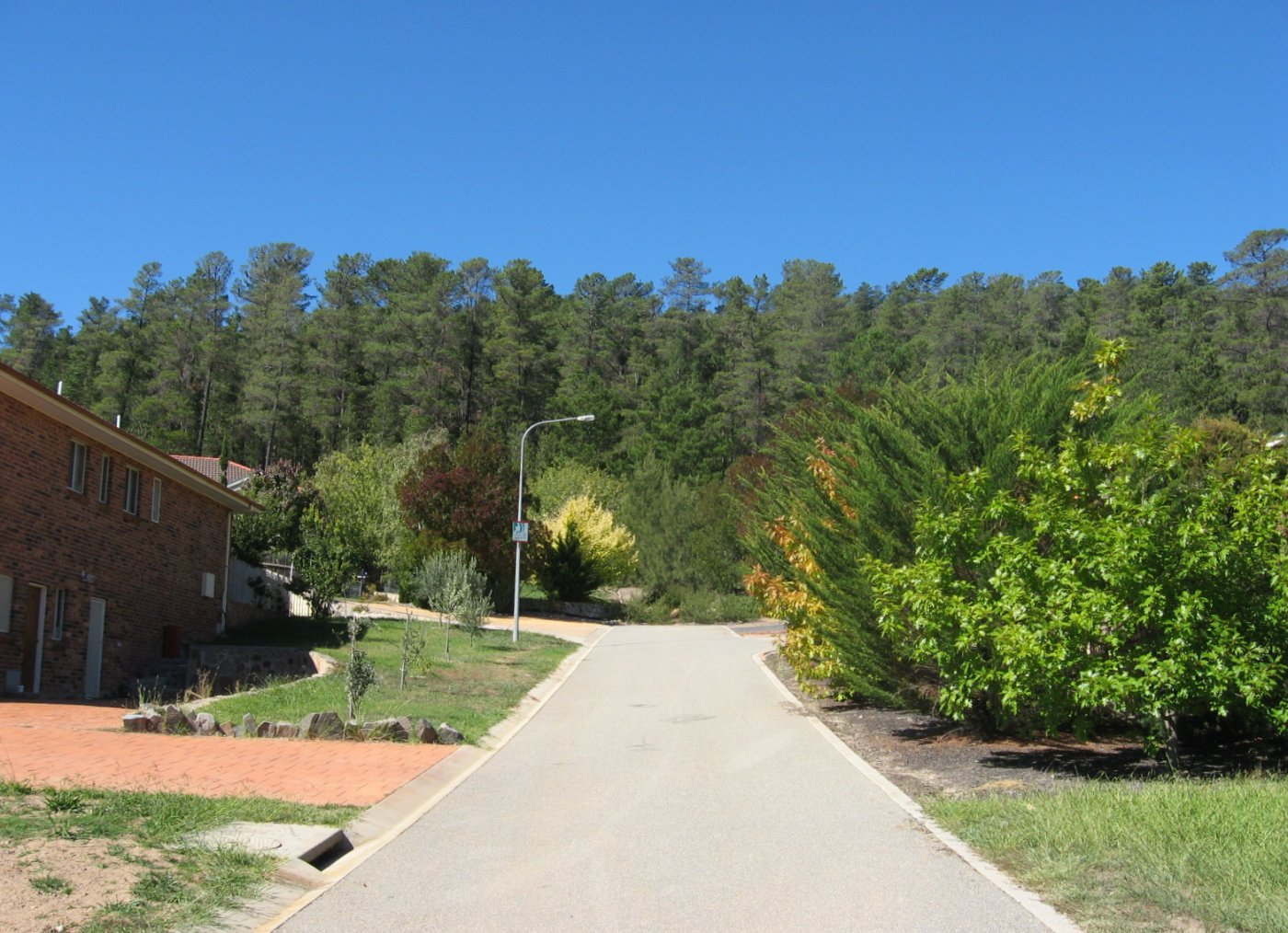 A typical cul-de-sac in Isaacs (Australia), backing onto the pine plantation. Photo by me.